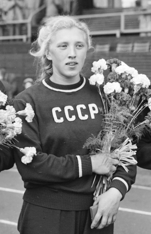 1952 Summer Olympics in Helsinki. Women's shot put. Galina Zybina.